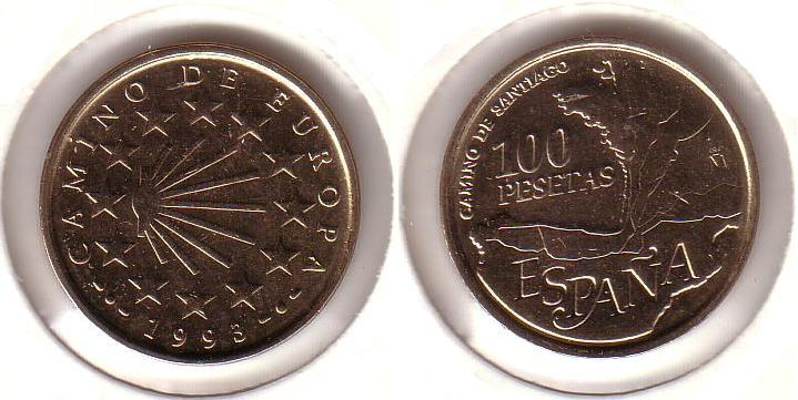 100 pesetas. Xacobeo's year